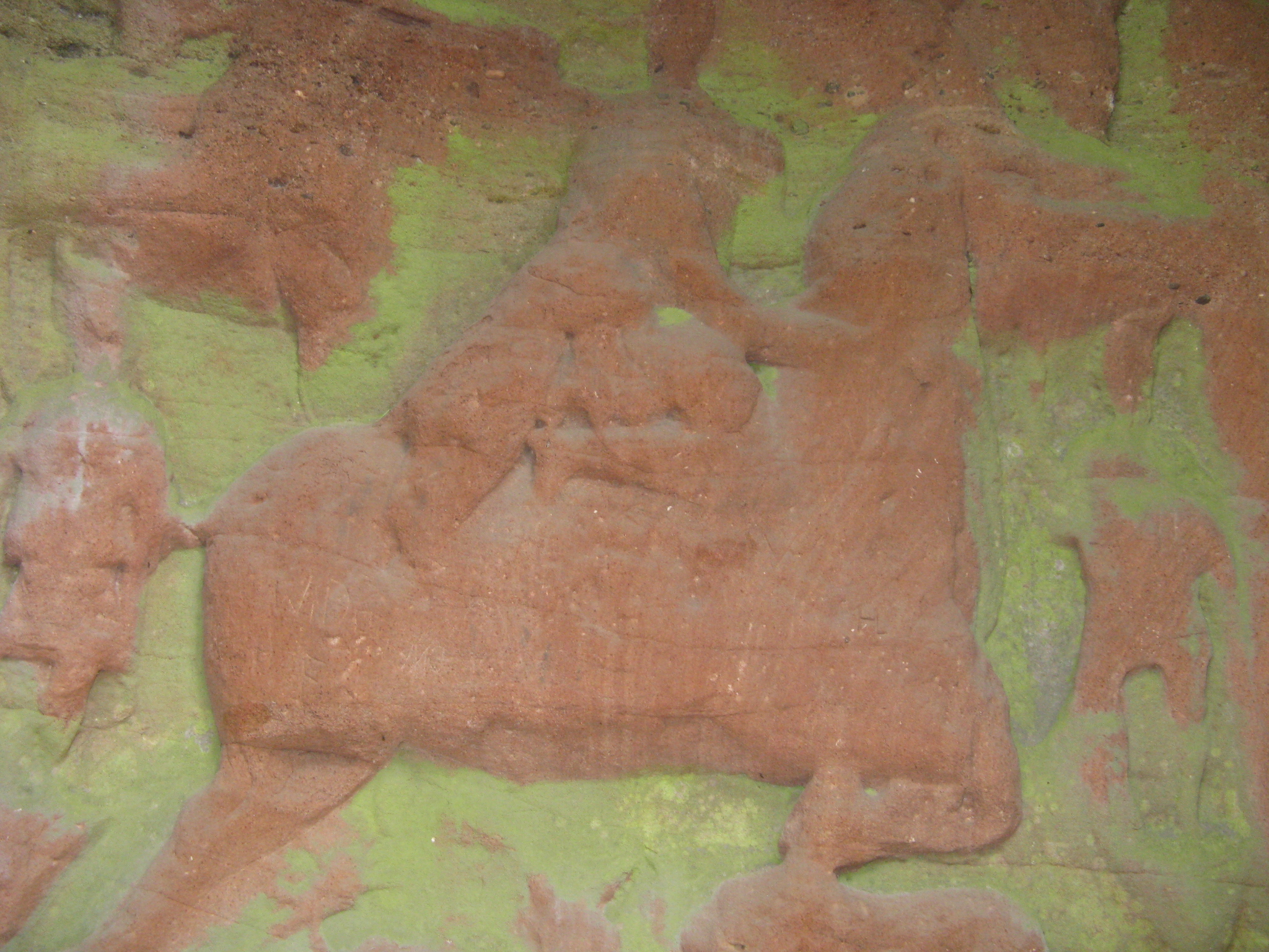 Mithraeum Schwarzerden, near Reichweiler, Landkreis Kusel, Rhineland-Palatinate, Germany